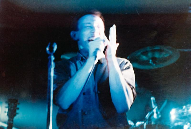 Howard Devoto, Cleveland, Ohio; Jerky Versions Of The Dream tour. Digital copy of print from 35mm film. Attribution details: Photo by R. S. Robinson